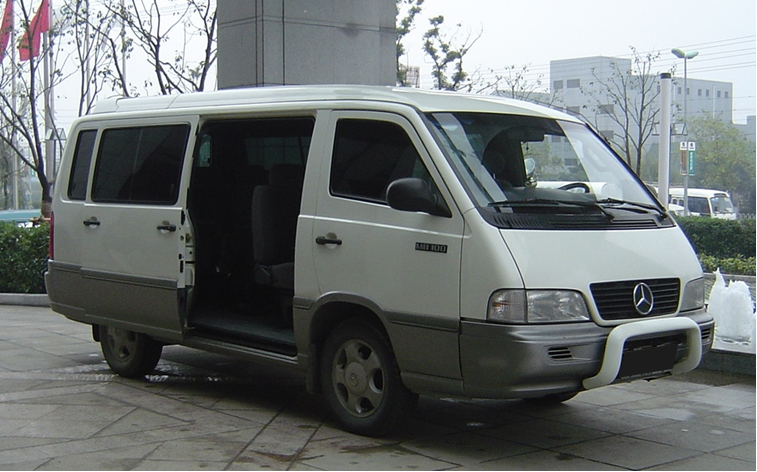 MB100/140-Istana, picture taken in Shanghai